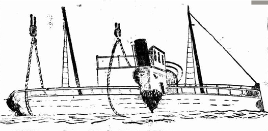 Raising of the NSW Government screw steamer Kate (1883 -1914) after its collision with the ferry Narrabeen 1898